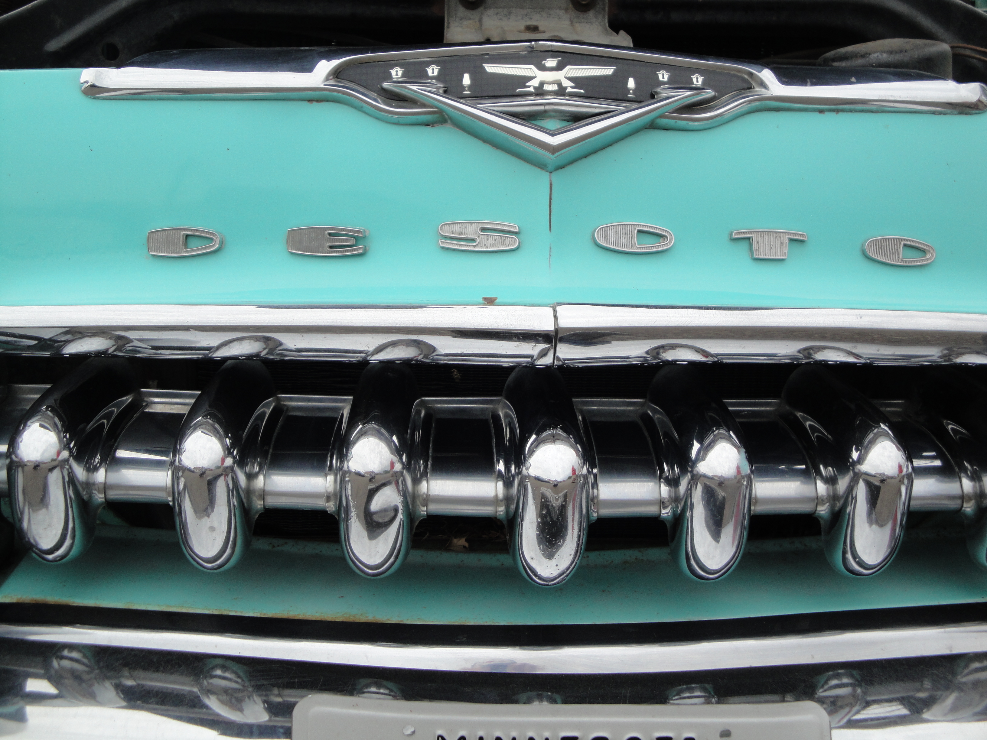 W.P.C. Restorers Club 10,000 Lakes Region Car Show June 12, 2011 Wagner's Drive in